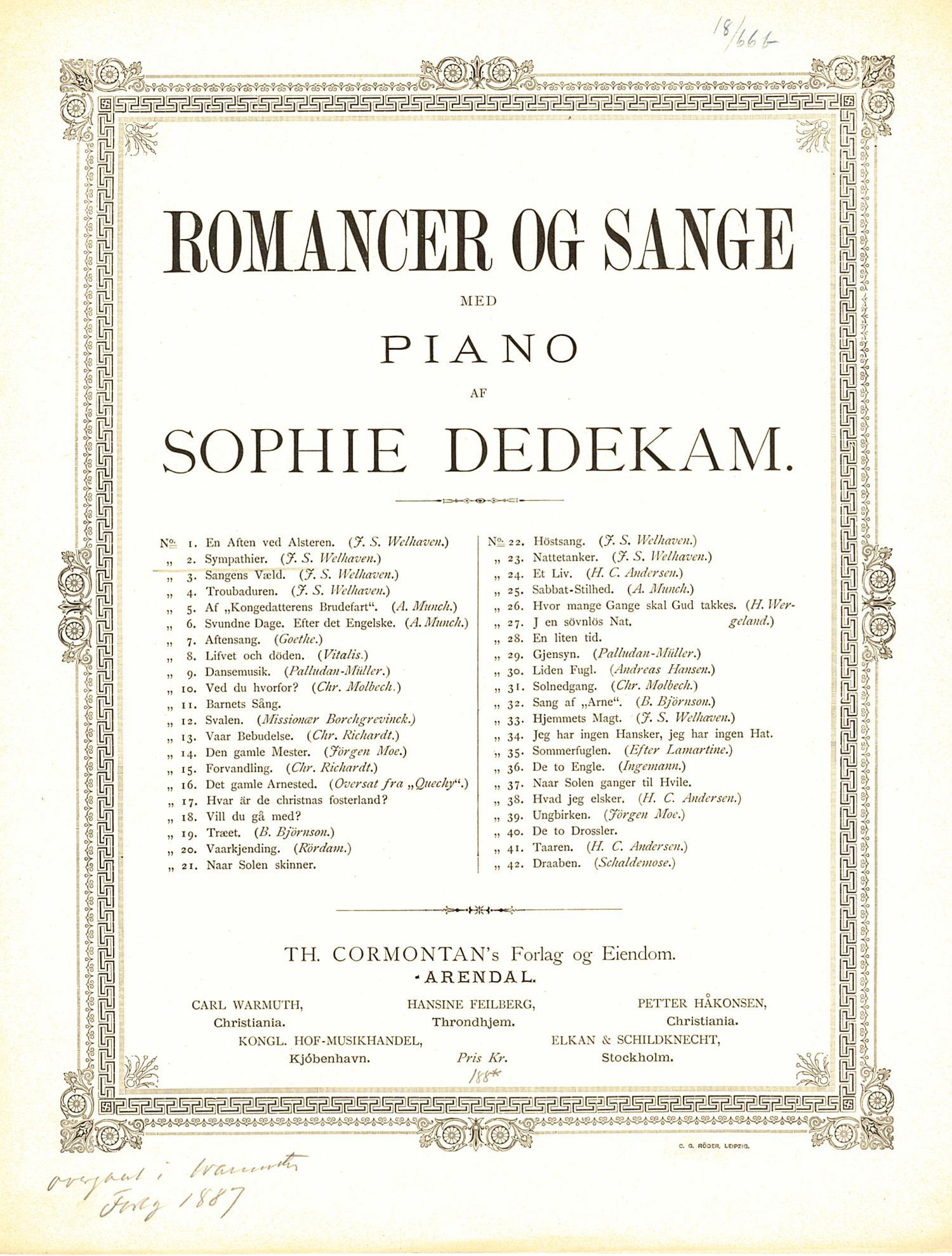 A scan of the front cover of a Dedekam song published in 1885 by the Theodora Cormontan Music Publishing Company in Arendal, Norway